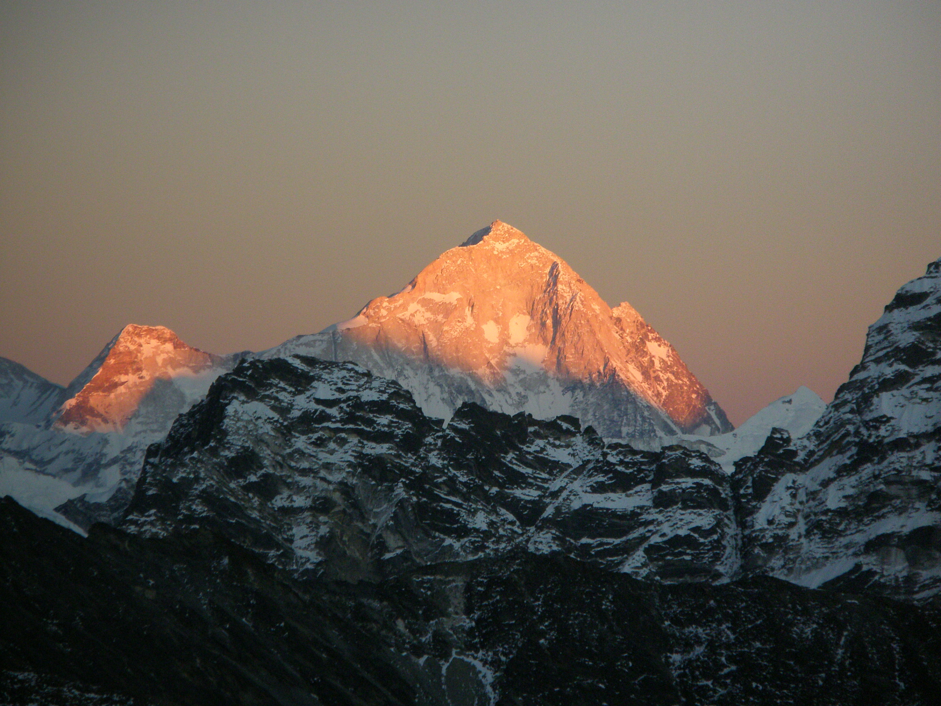 Makalu at dusk from Gokyo Ri